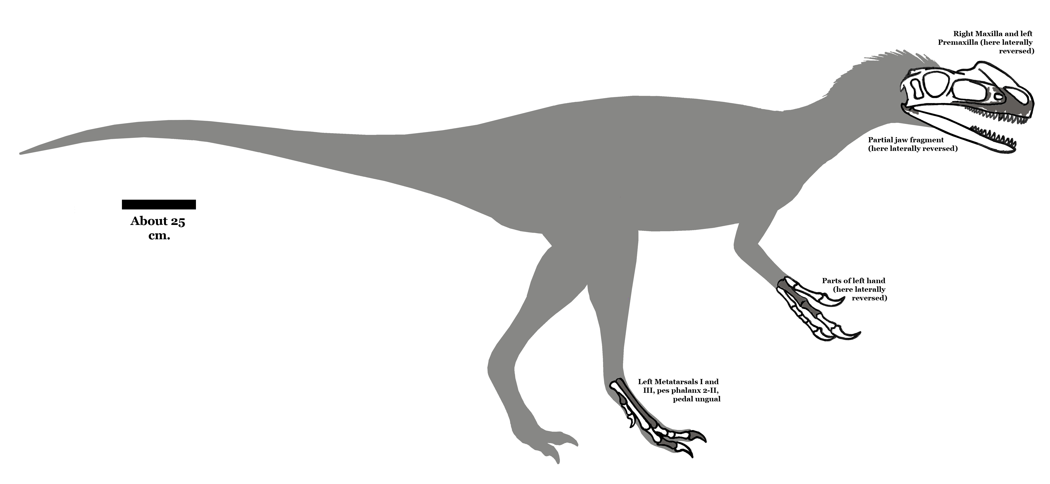 Known fossil pieces after the Kileskus aristotocus (Dinosauria, Theropoda, Coelurosauria, Tyrannosauroidea).[1] References ↑ Ivantsov S.V, Averianov A.O. & Krasnolutskii S.A. (2010), "A new basal coelurosaur (dinosauria: theropoda) from the Middle Jurassic of Siberia", Proceedings of the Zoological Institute RAS 314(1): p. 42-57. The Reference does not show any reconstruction